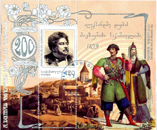 Postal Stamp of Georgia - 200 years from birth of Alexandre Dumas. This picture also shows the national costumes.